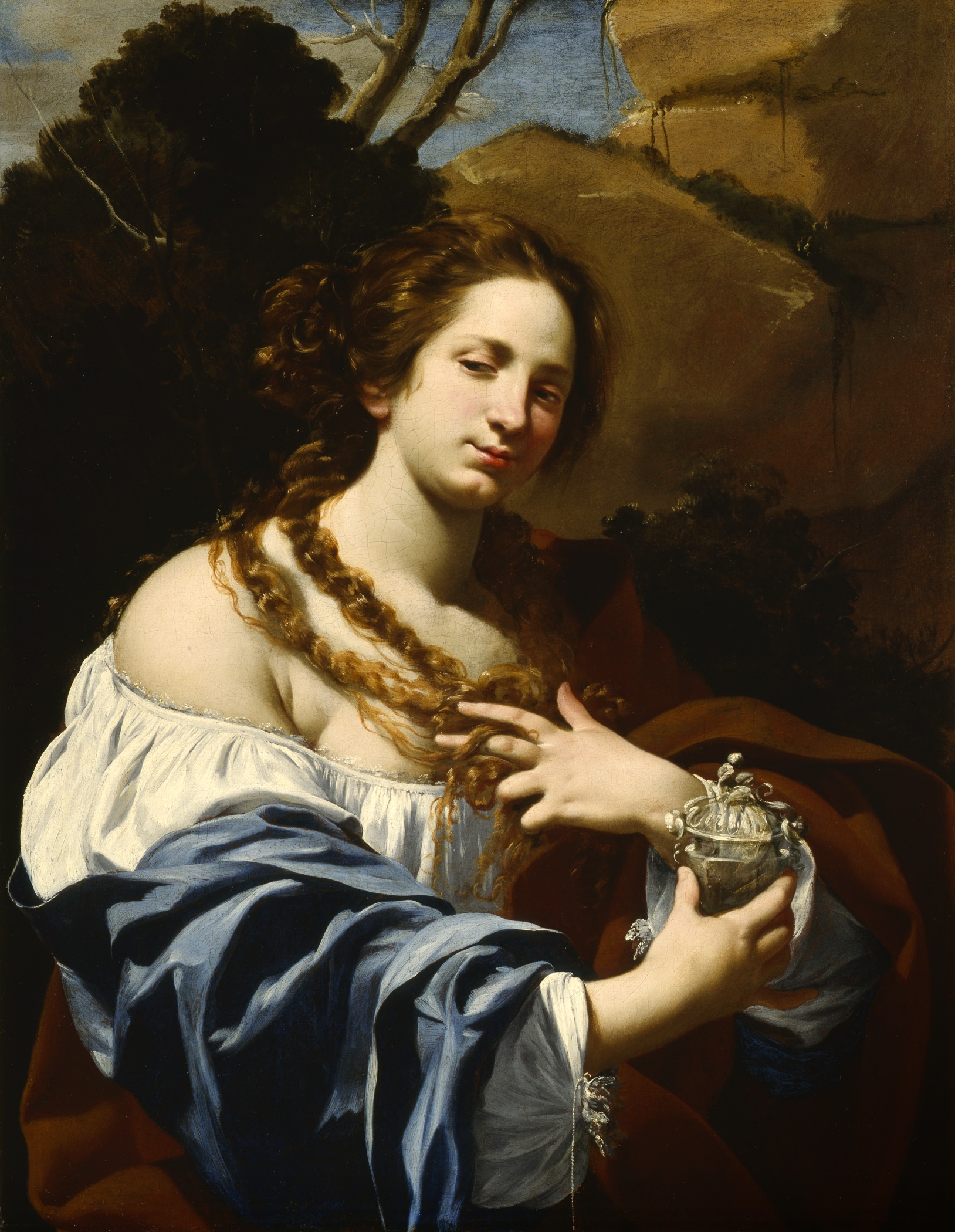 France, circa 1627 Paintings Gift of The Ahmanson Foundation (M.83.201) European Painting